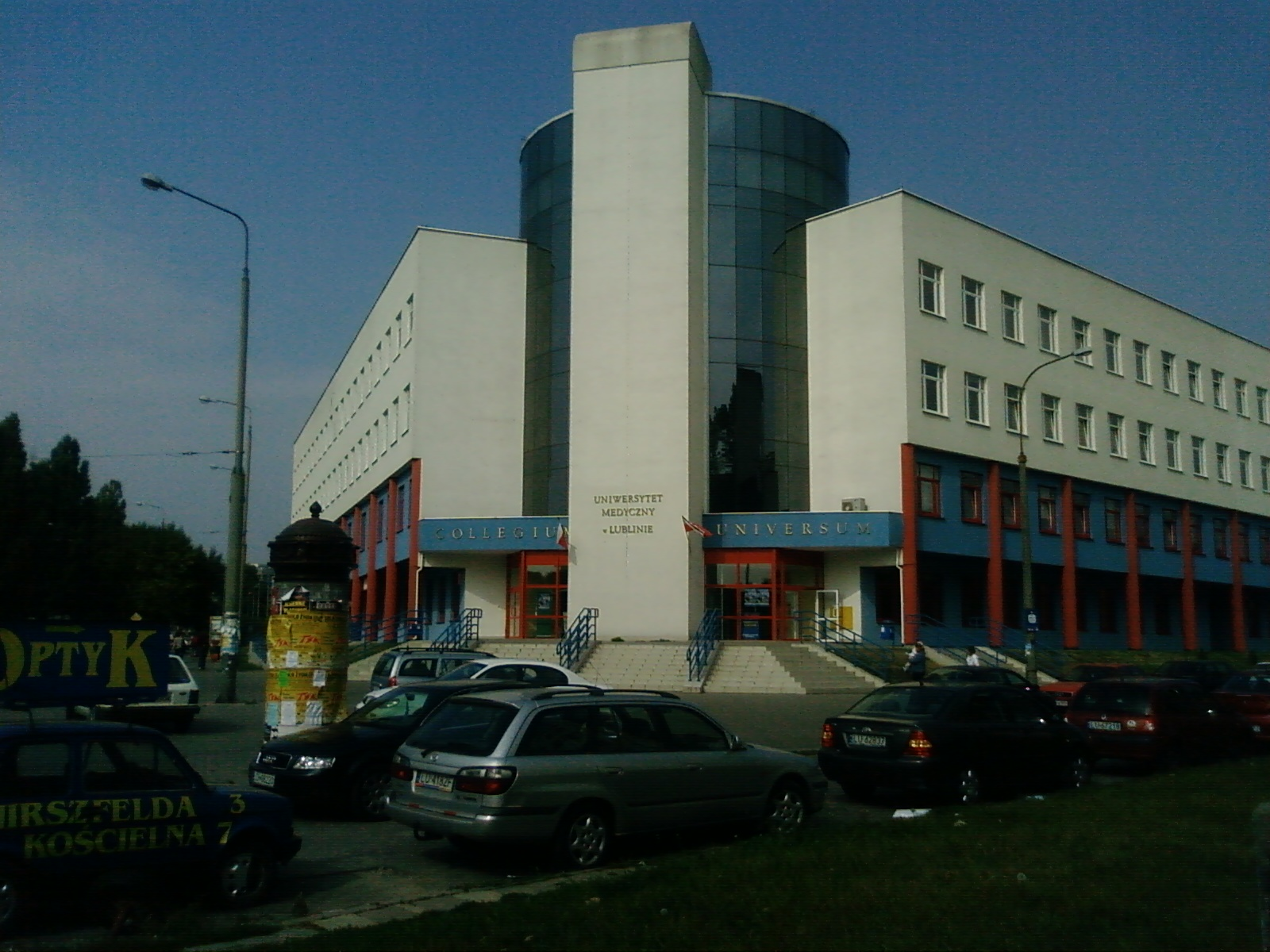 Collegium Universum Medical University in Lublin